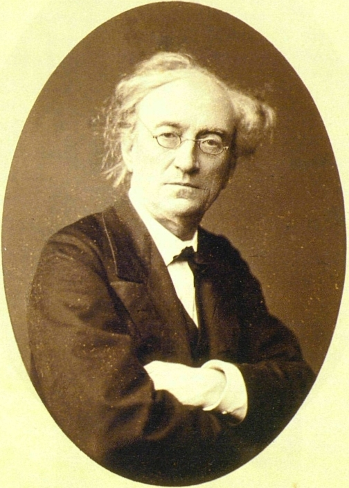 Portrait of Fyodor Tyutchev (1803-1873)